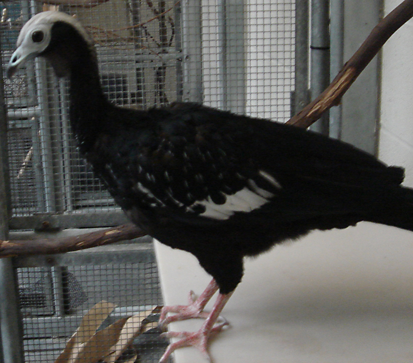 Pipile cumanensis. Central Park Zoo, New York.